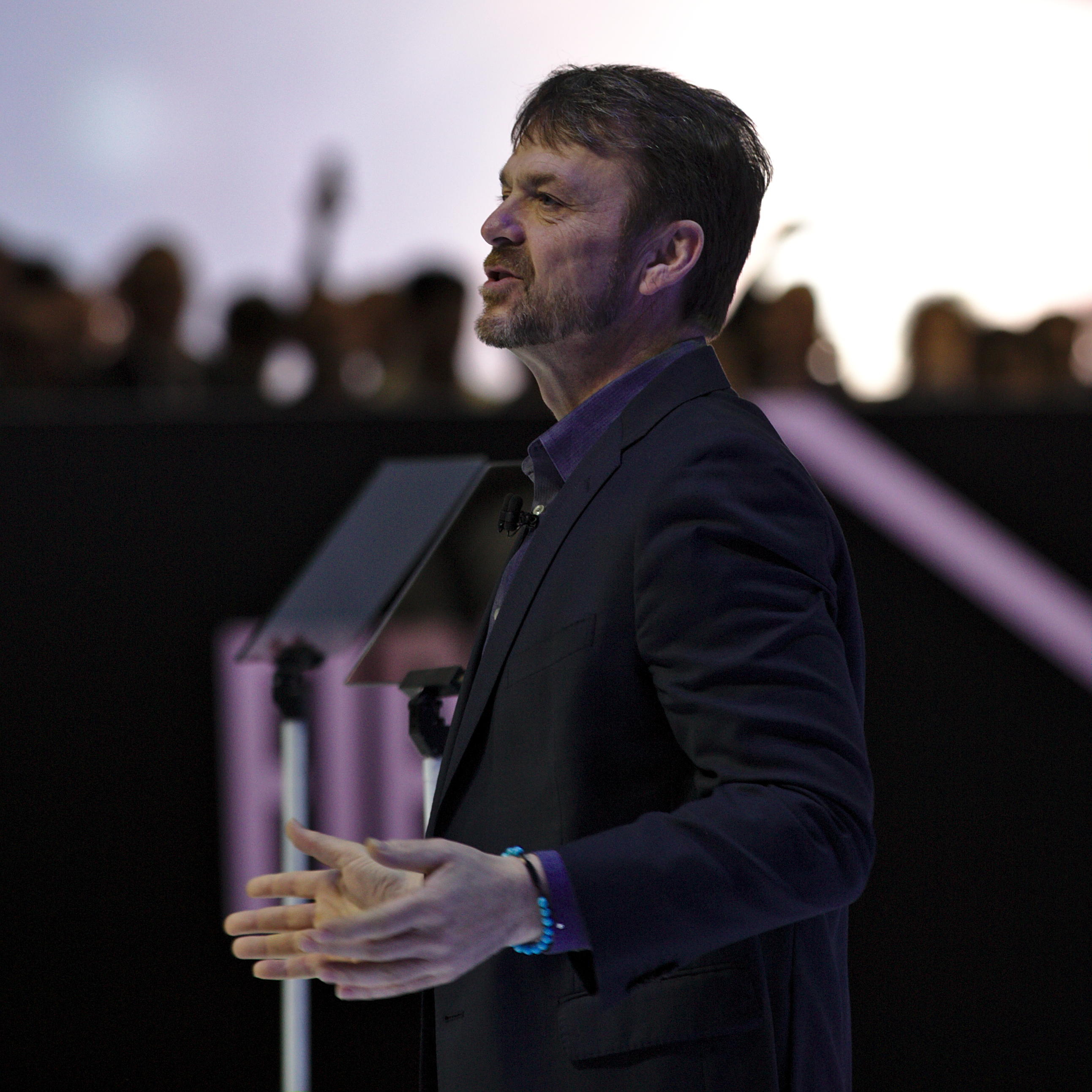 Michael Manley at Geneva Motor Show 2019